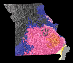 from a public domain map from the USGS. Confirmed through email February 10, 2003 Dear Joe: The map, Tapestry In Time, is considered public domain. Ms. Adonnis Goldstein USGS/ESIC Reston, Virginia --- To: " " cc: 02/08/03 09:28 PM Subject: Feedback from USGS Web Pages Is the following image in the public domain? Also, what about the other maps having both state boundaries and physiographic subdivisions? I'd like to add these to an open source material provided they are in the public domain or I can get the copyright holder to give permission to wikipedia for these images. Thanks, Joe